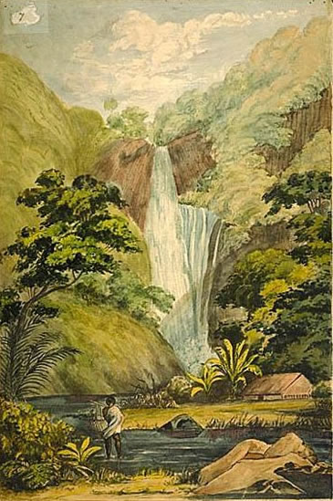 Cascade de Papua sud de Rarotonga dans les années 1830 (îles Cook)/Papua fall south of Rarotonga (Cook Islands)